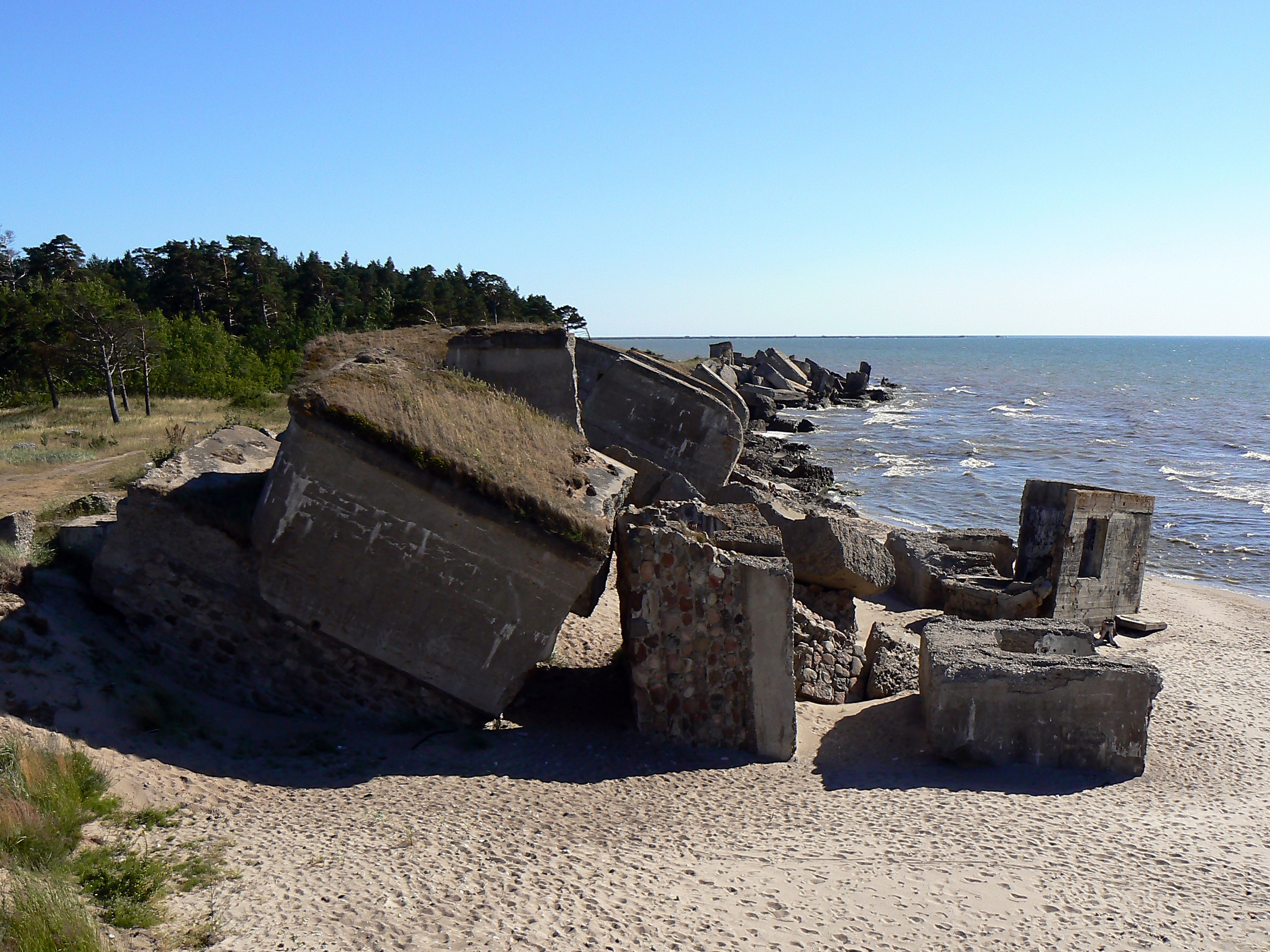 Liepaja fortress ruins. Image shows Battery nr.1 in North forts. Most of buildings are concentrated in Karosta.